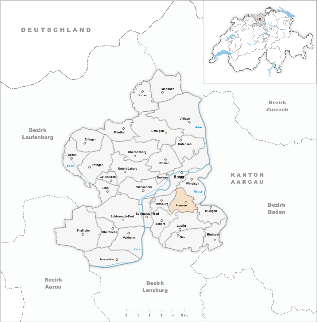 Municipality Hausen